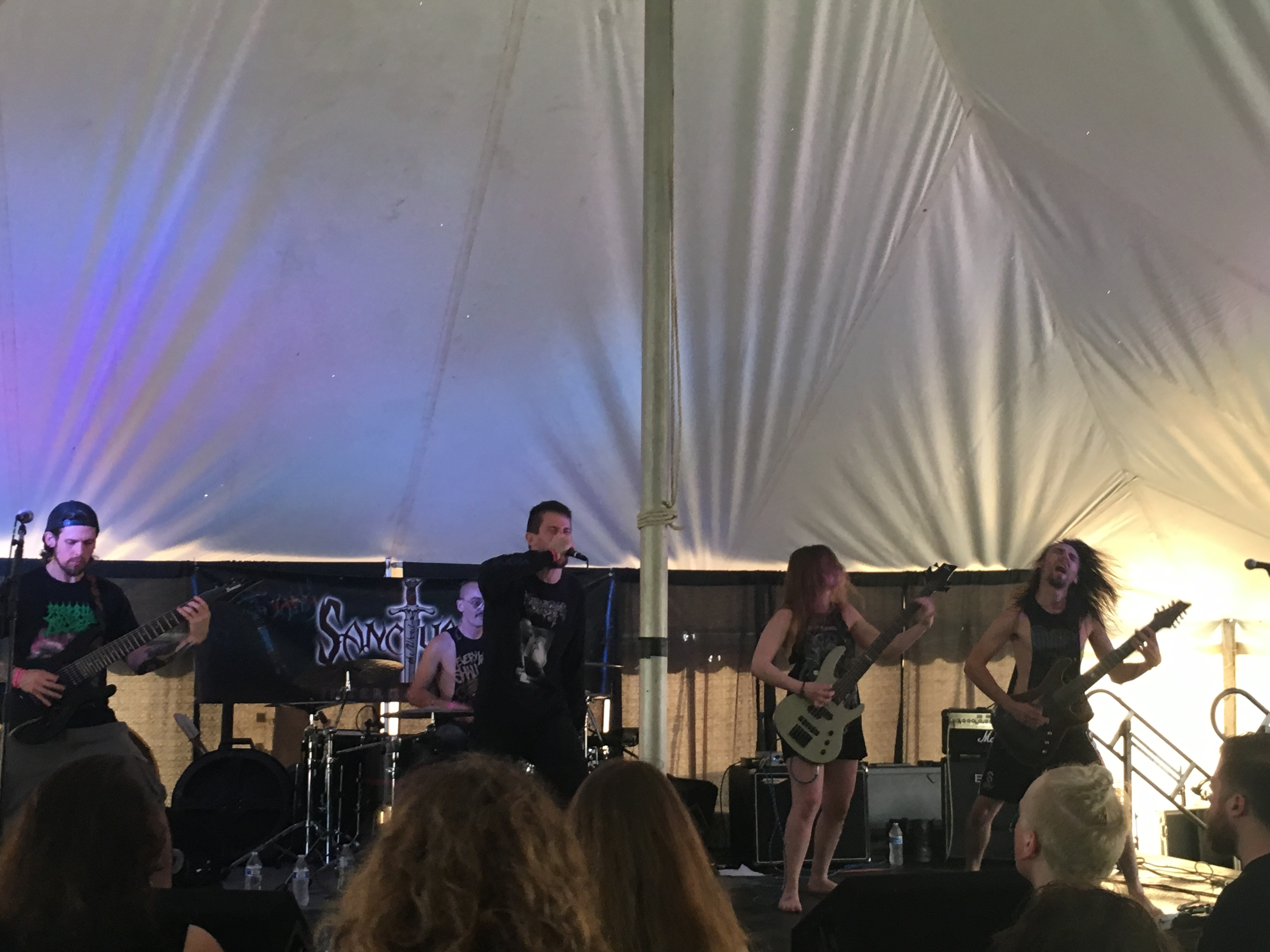 Abated Mass of Flesh performing at Audiofeed 2019 on the Sanctuary Stage.